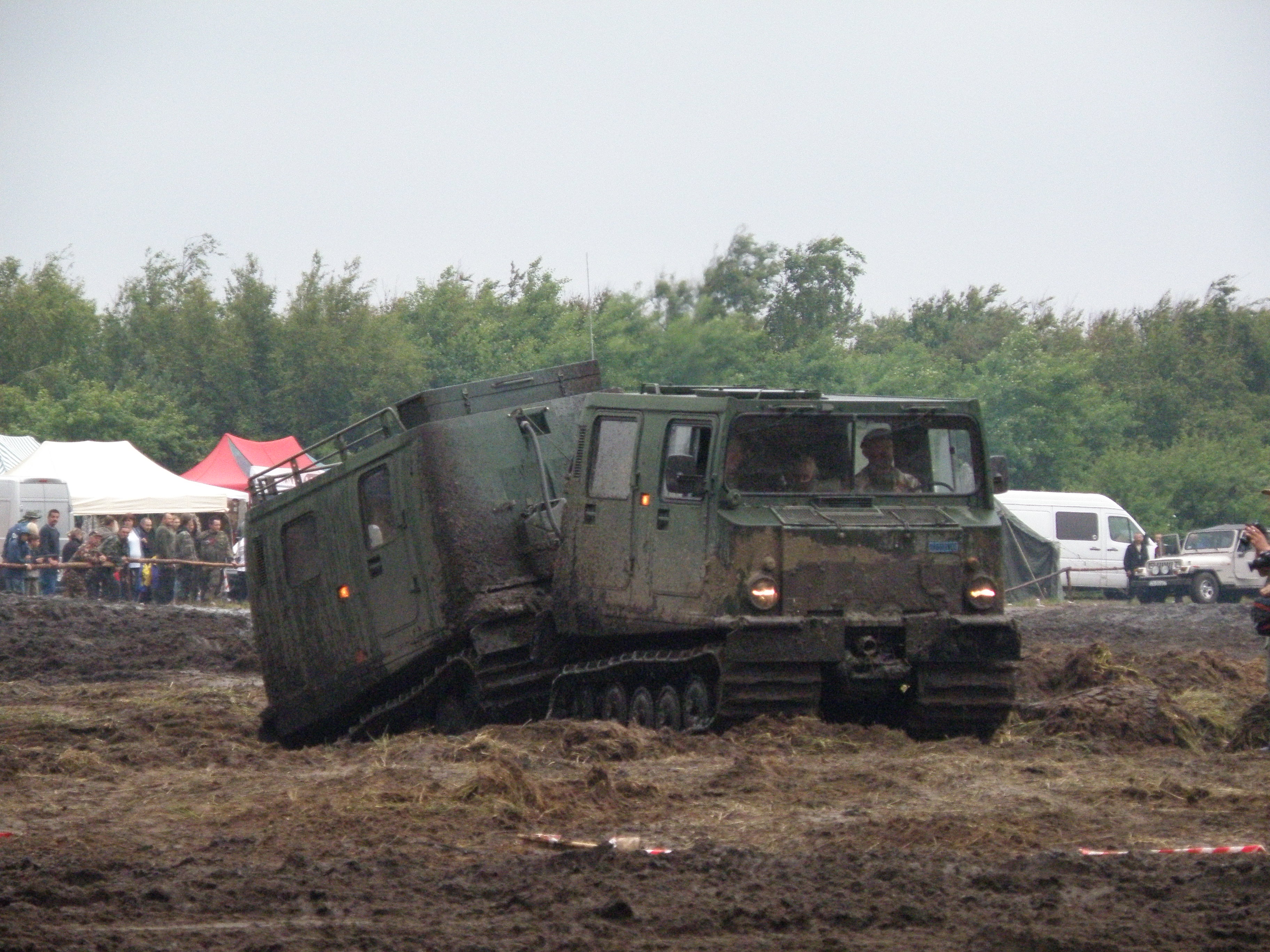 The 10th International Rally of Historical Army Vehicles in Darłowo, Poland